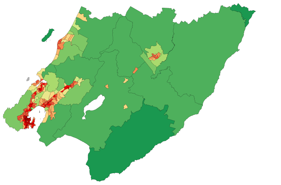 Map showing population density of a region of New Zealand (by Statistics NZ Area Unit) as of the 2006 census